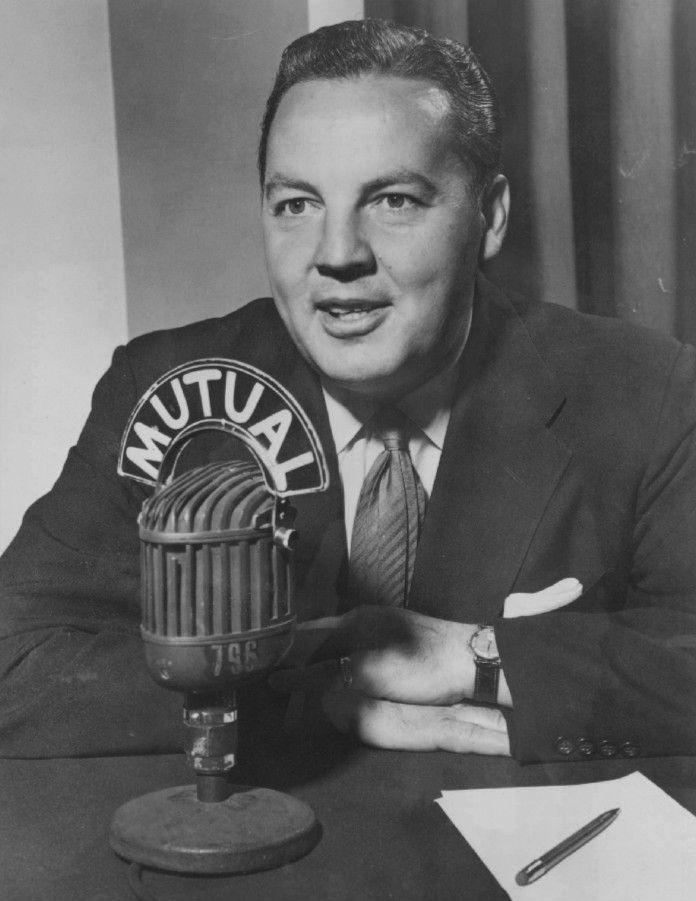 Publicity photo of sportscaster Harry Wismer.